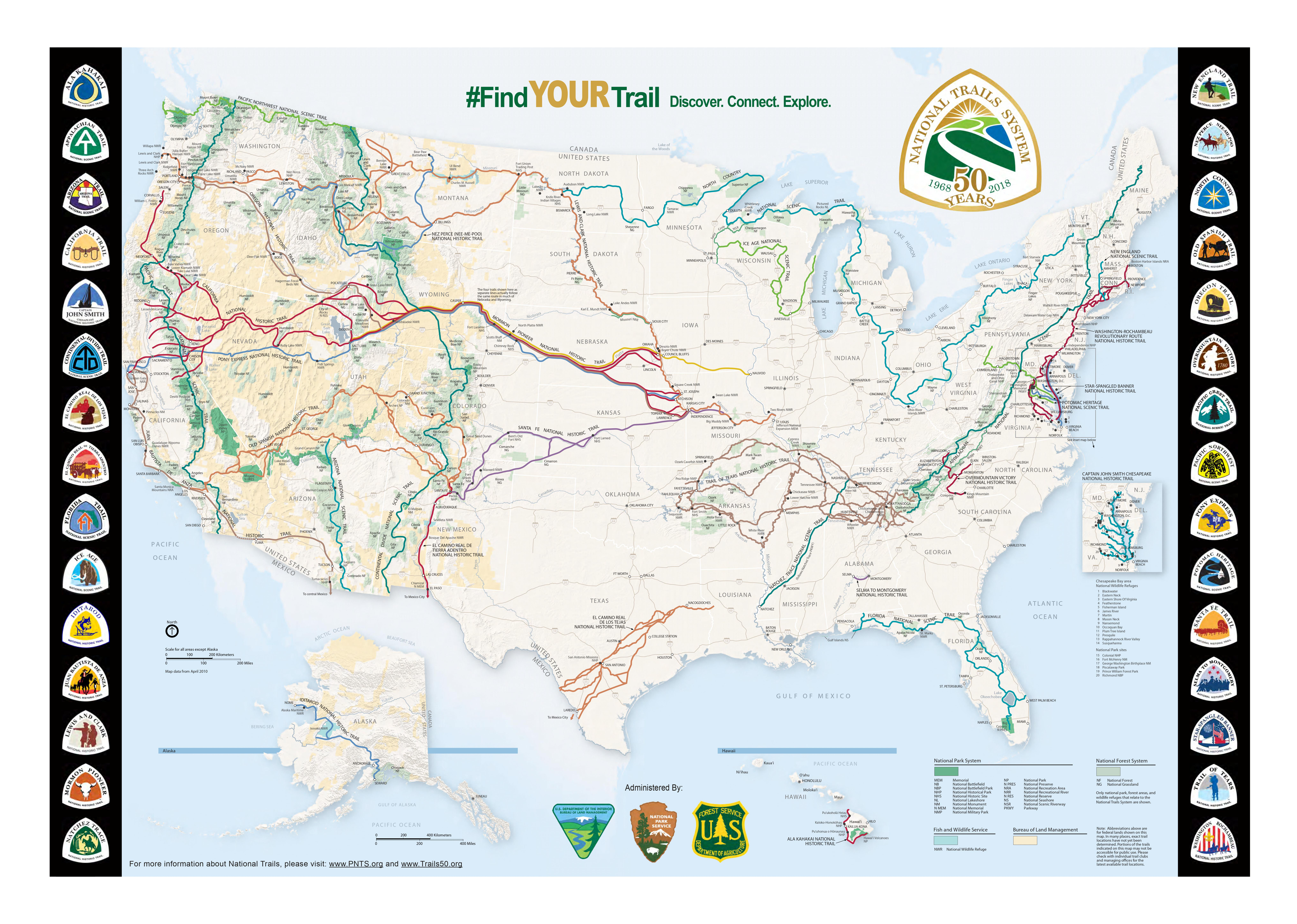 National Trails System map produced in 2008 to commemorate the 50th anniversary of the National Trails System Act. In addition to the trails, this map shows the unique badges used to guide hikers on each one.